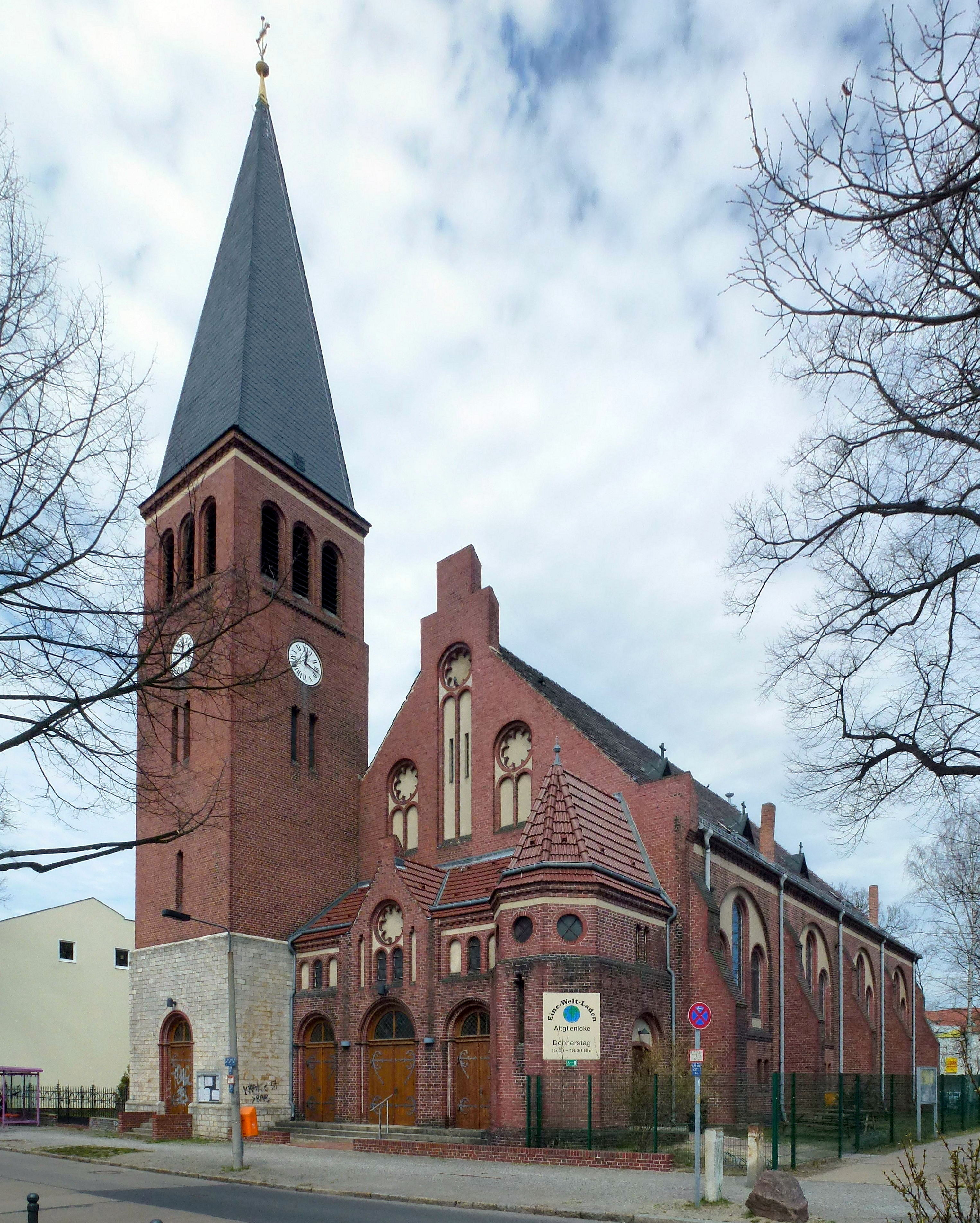 Berlin-Altglienicke Dorfkirche